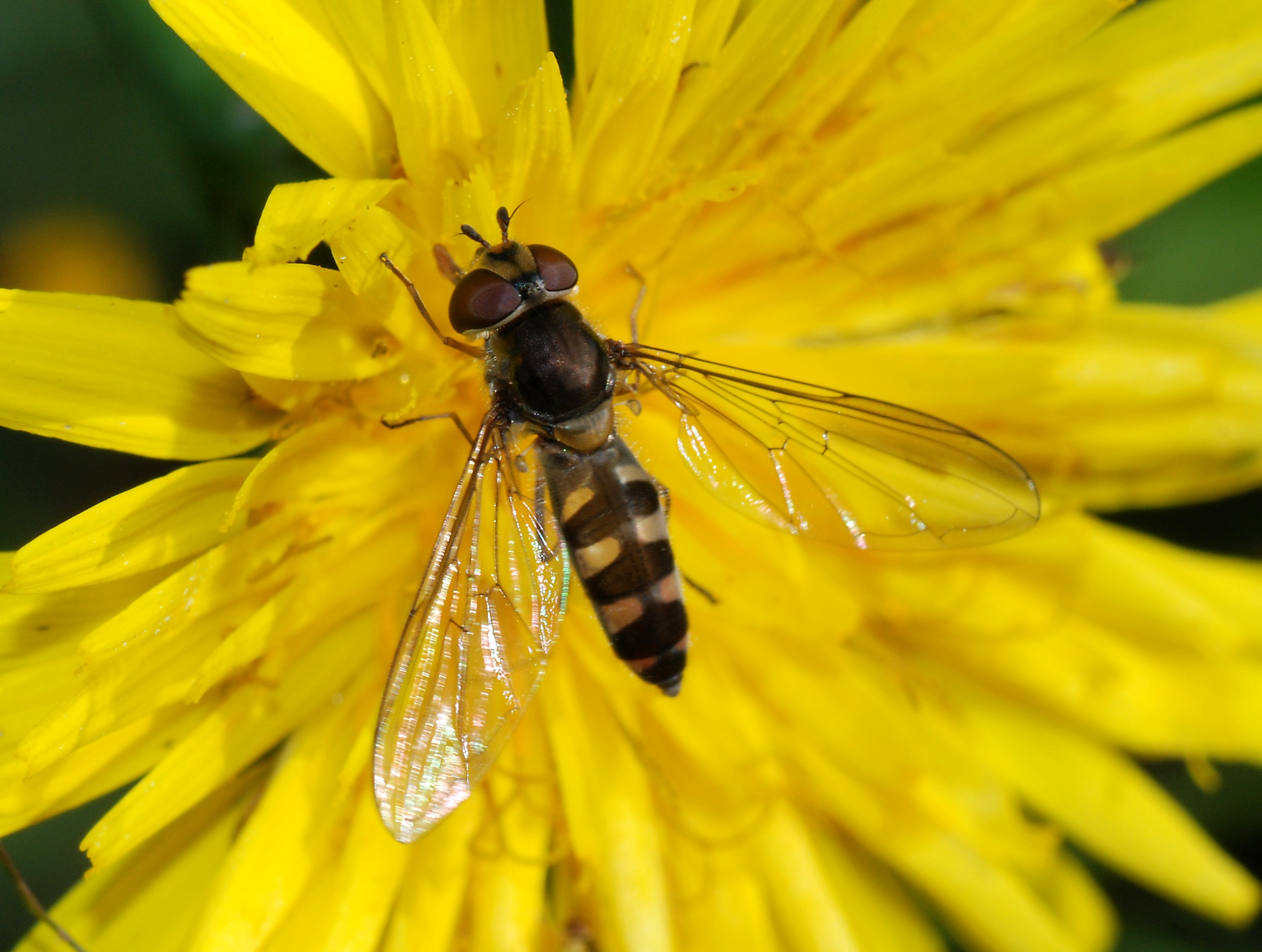 A female hoverfly (Meliscaeva auricollis)